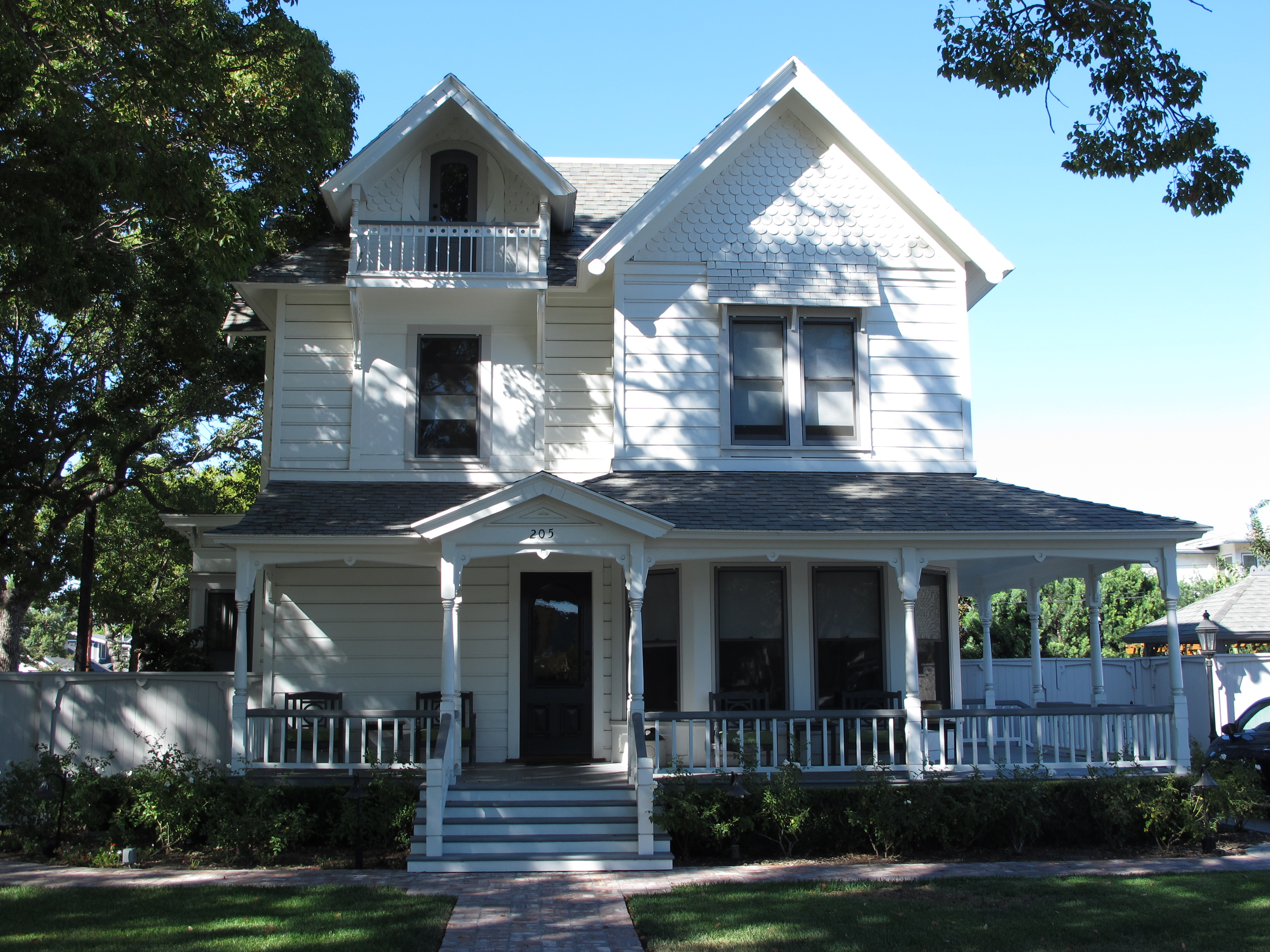 Culver, C. Z., House National Register of Historic Places Architectural Styles: QUEEN ANNE